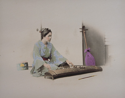 A woman playing the koto